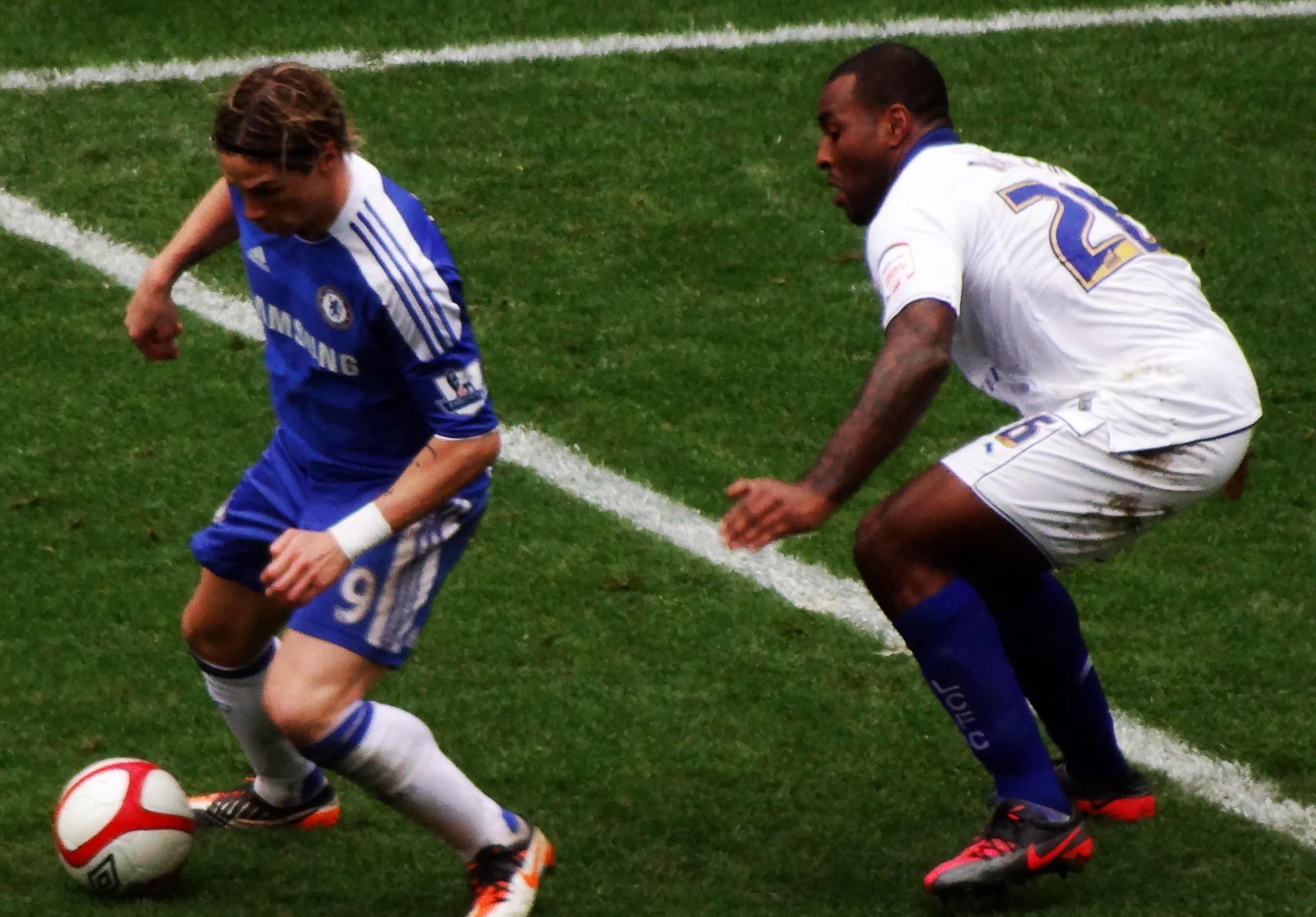 Fernando Torres in action with Chelsea against Leicester City (March 18, 2012).